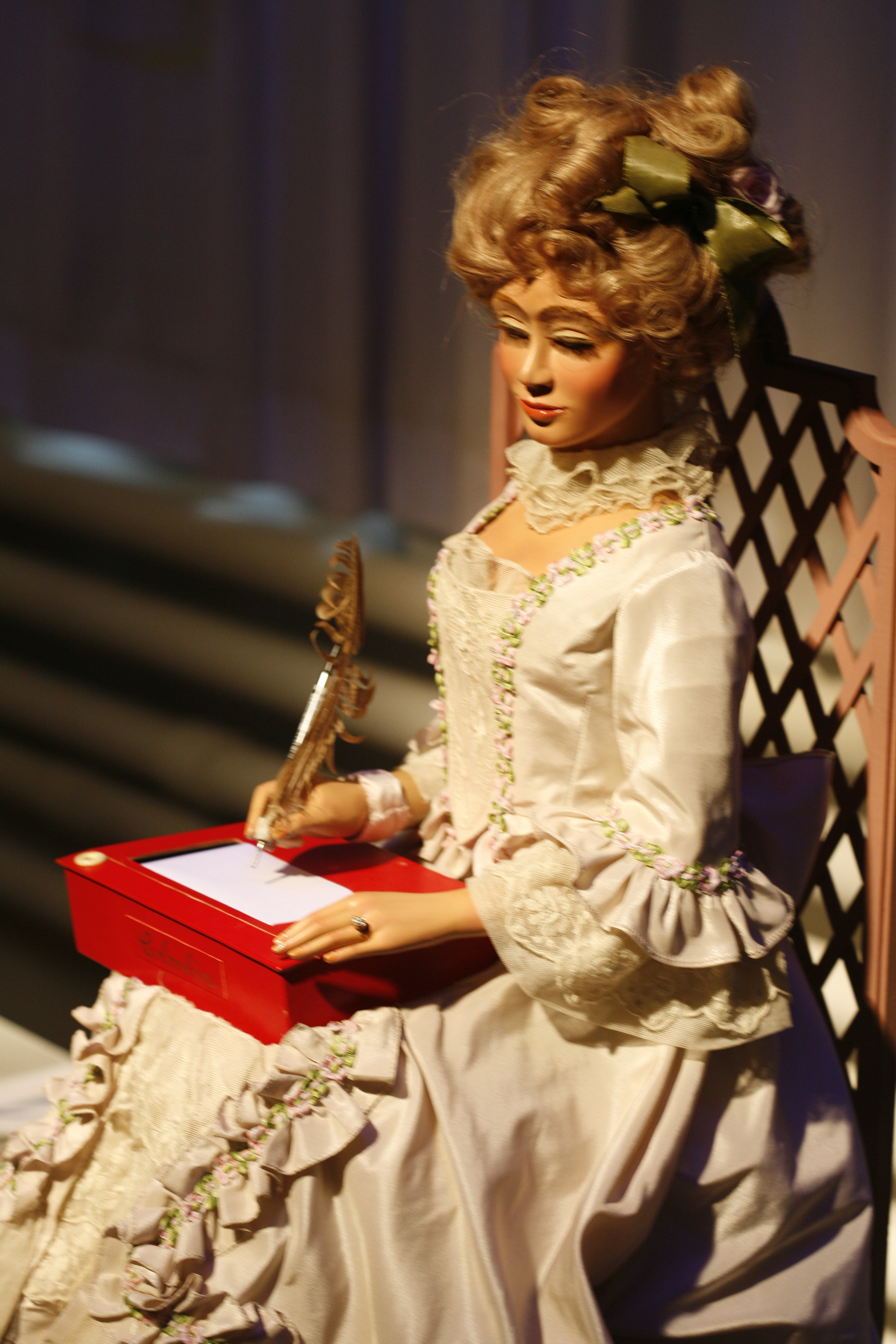 CIMA museum (Centre International de la Mécanique d'Art)